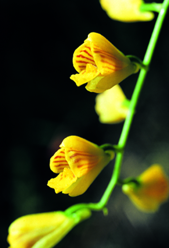 Scelochilus tuerckheimii